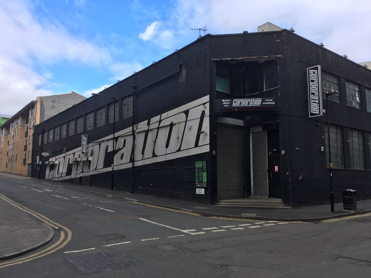 Corporation Nightclub in Sheffield, taken in June 2017.